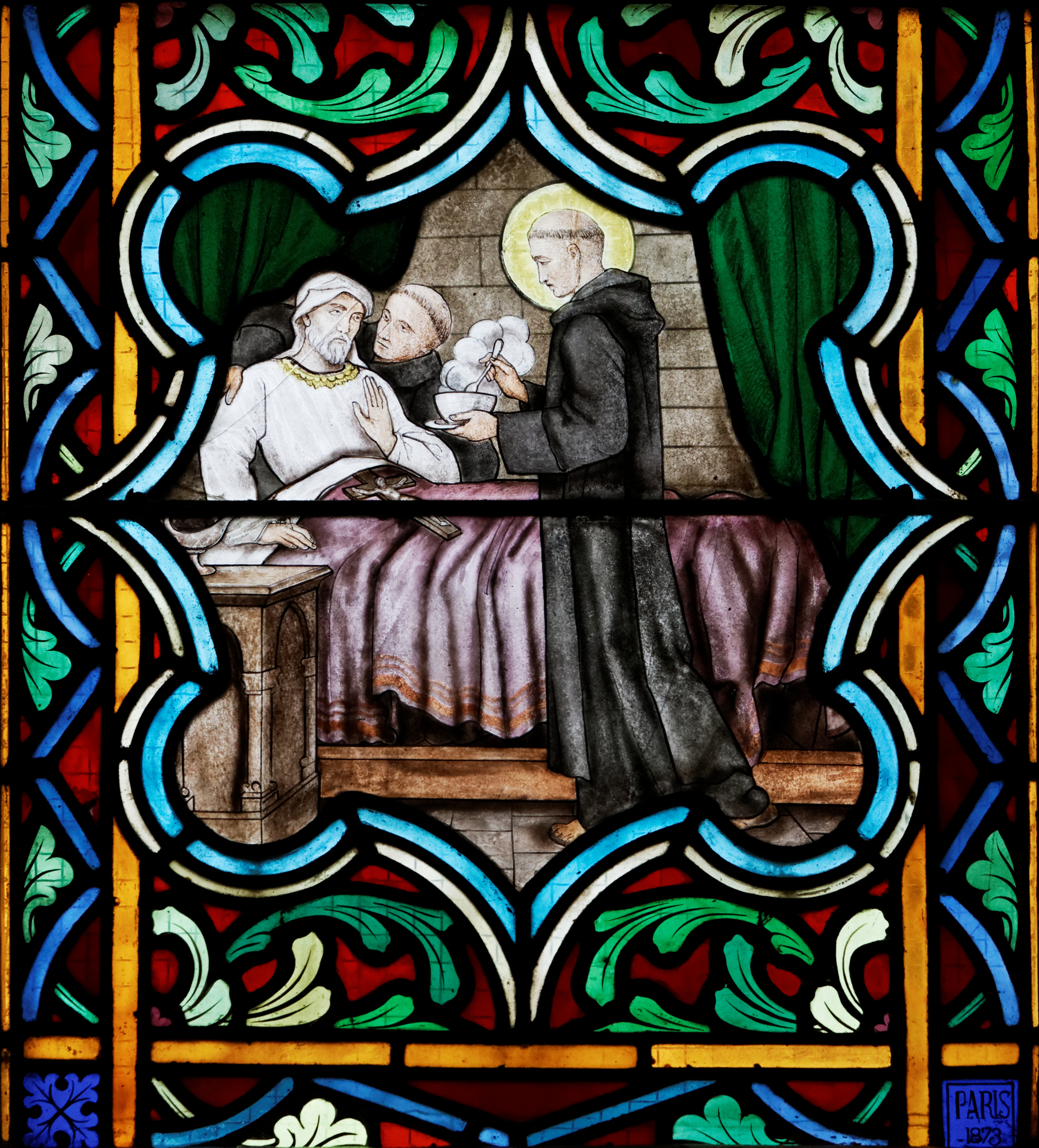 St Anselm works in the monastery's infirmary and overcomes the antipathy of the monk Osborne with his good spirits. Panel 4 of the Vitrail of St Anselm in St Corentin Cathedral in Quimper, Finistère, Brittany, France.